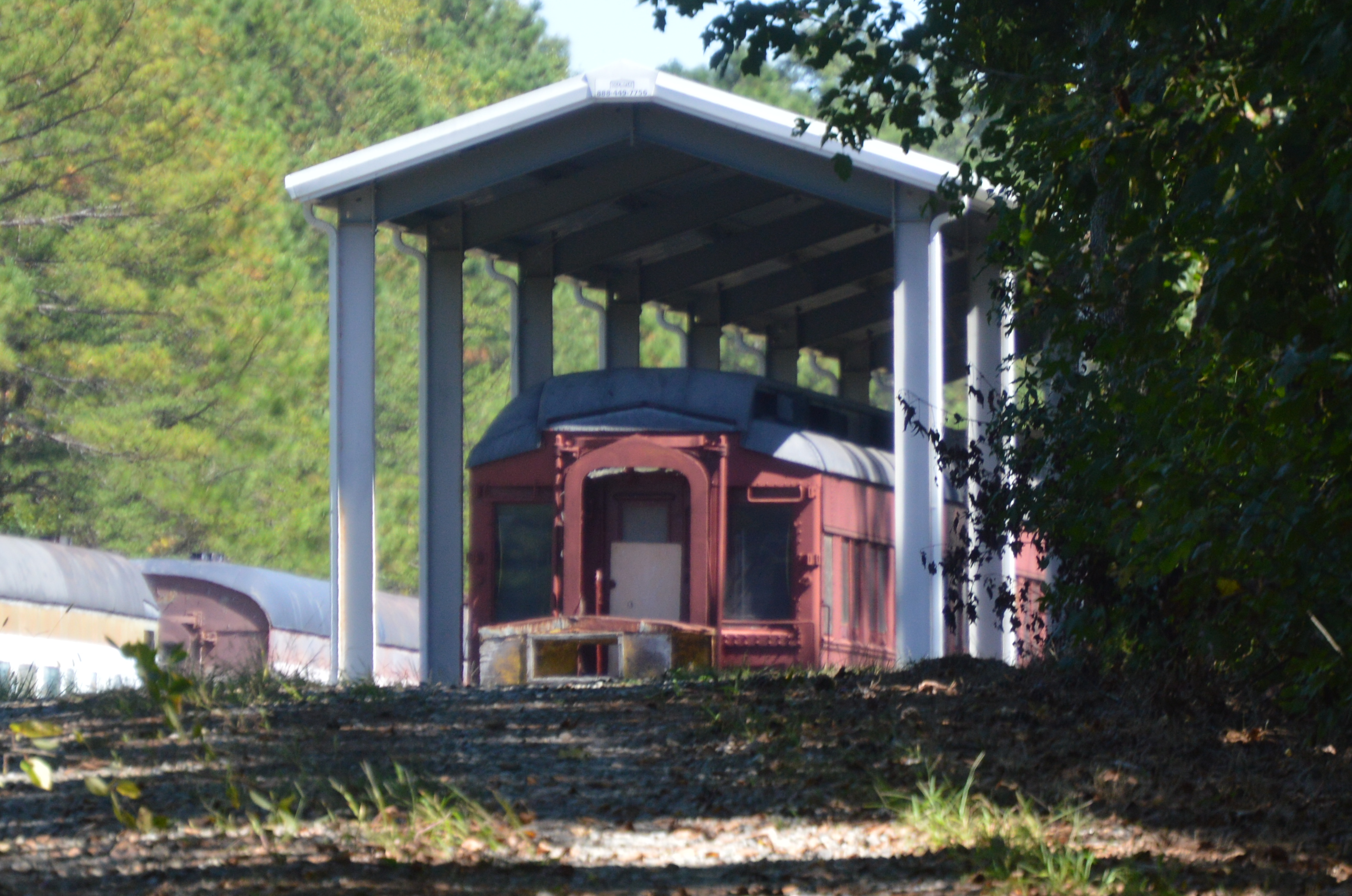 Distant view from the west (from County Line Road) of Dinwiddie County, a retired Pullman car operated by N&W. Now owned by the Old Dominion Chapter of the National Railway Historical Society, it is kept at the chapter's museum near Hallsboro in Chesterfield County, Virginia, United States. Built in 1926, the car is listed on the National Register of Historic Places.